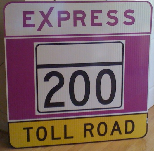 Picture of ICC independent route marker.